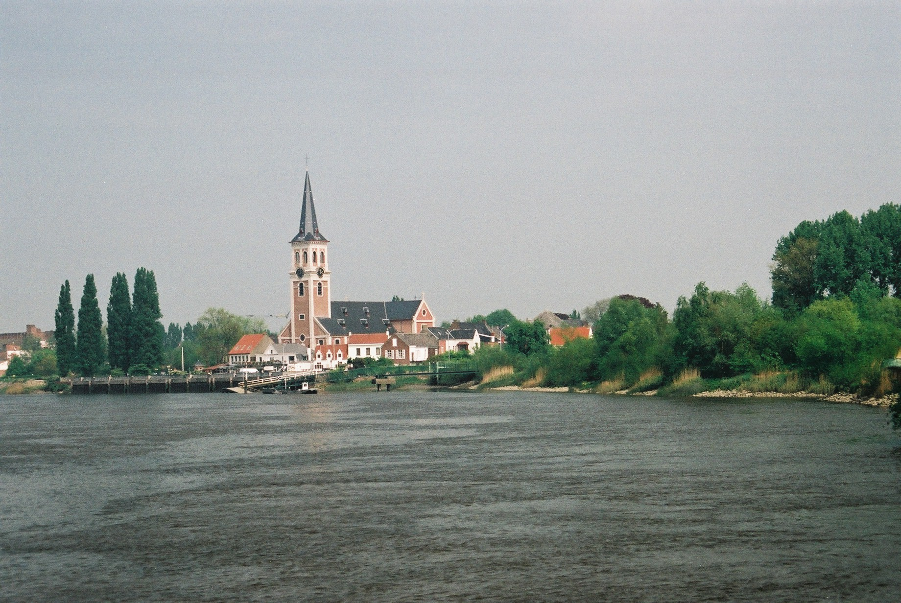 View on the Quai of Sint-Amands Photo: Frans De Leeuw